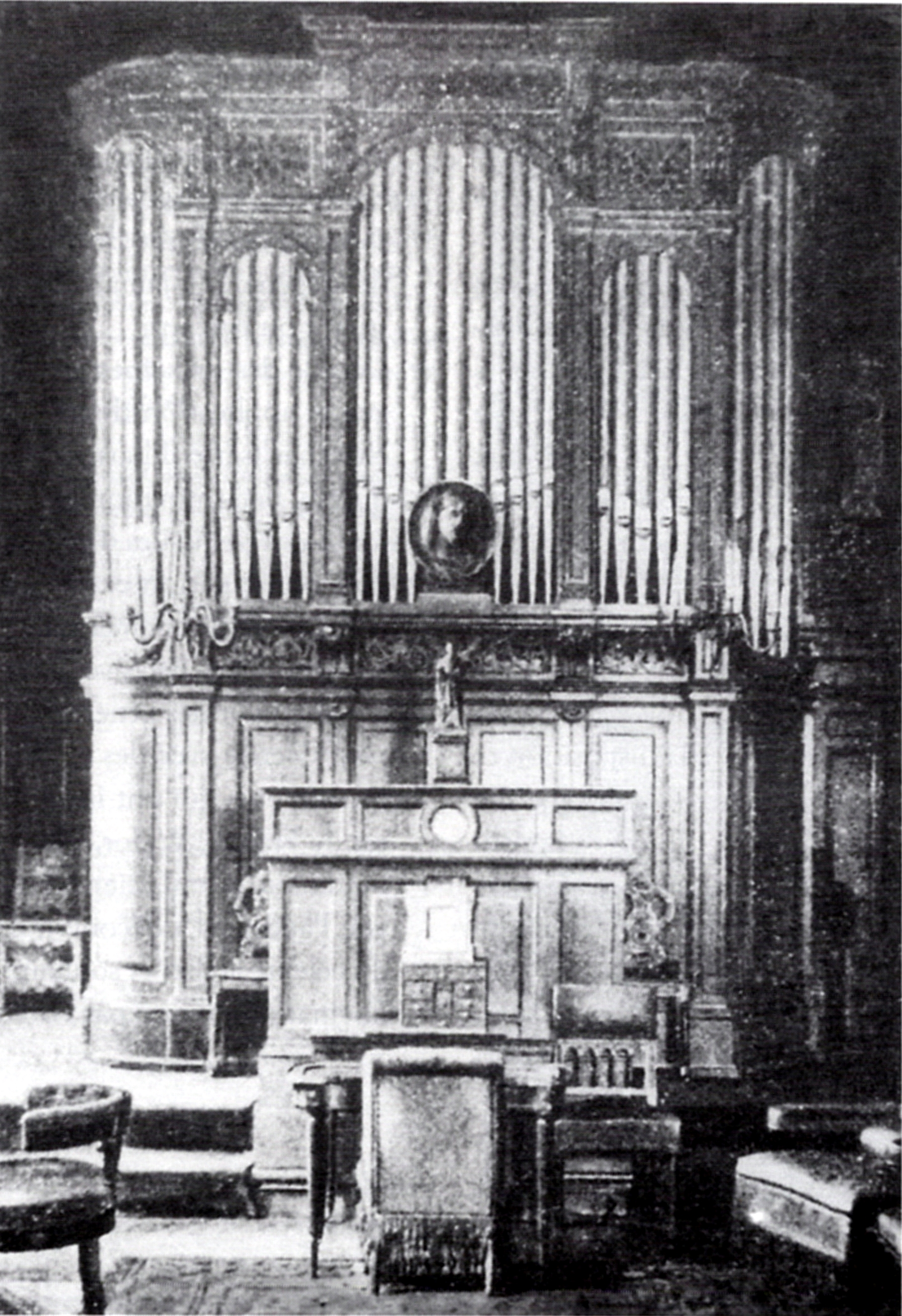 Charles Gounod's Orgue de Salon, Place Malesherbes in Paris